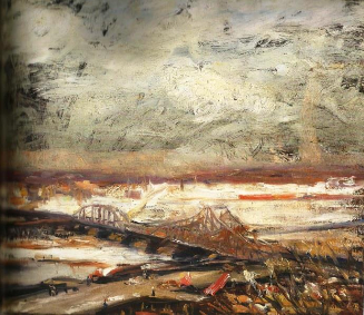 A landscape painting by Florence Howell Barkley, originally exhibited as "Landscape over the City"; now titled "Jerome Avenue Bridge", 1910–11: Shown in the 1913 Armory Show.